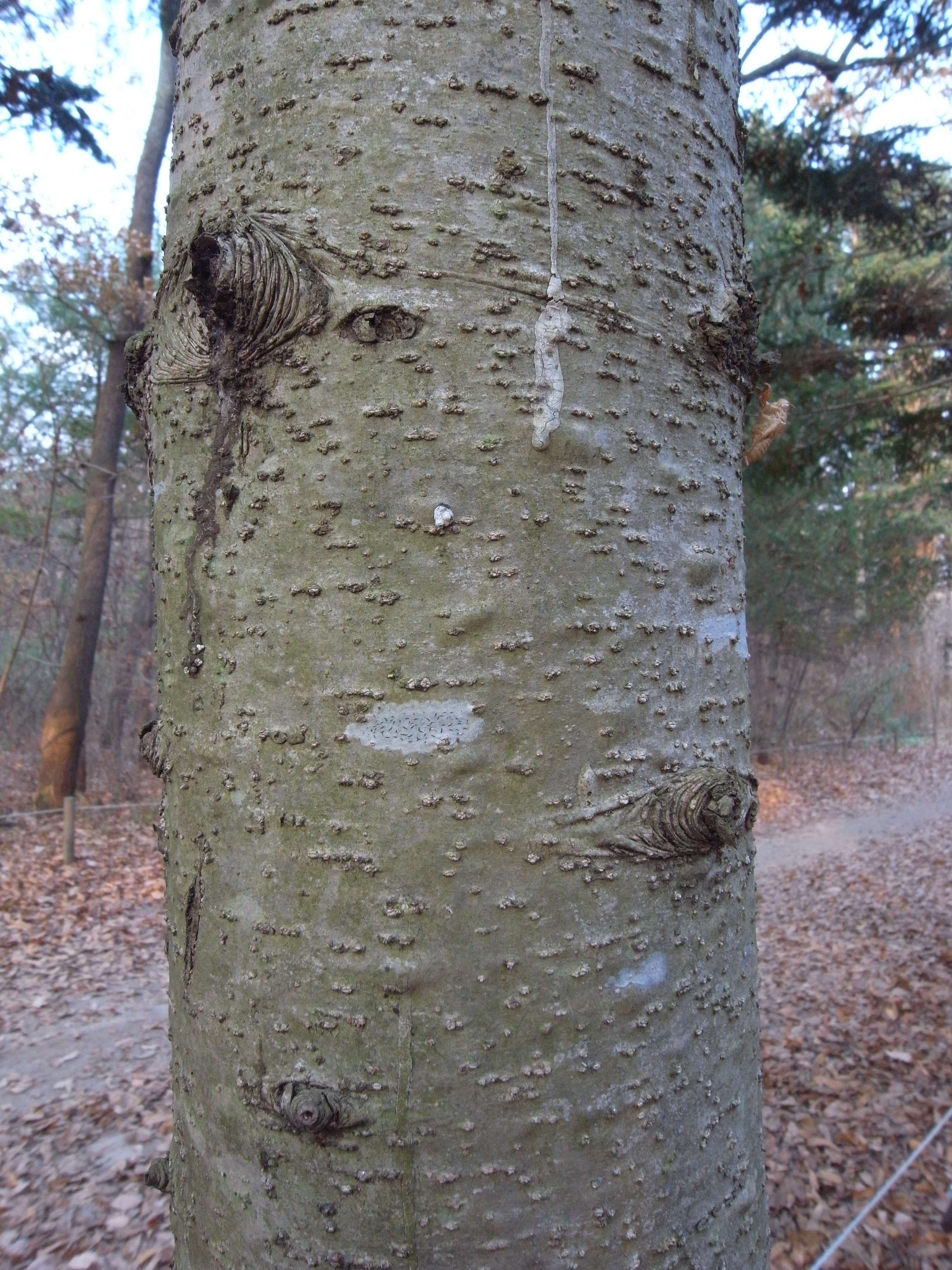 Abies koreana